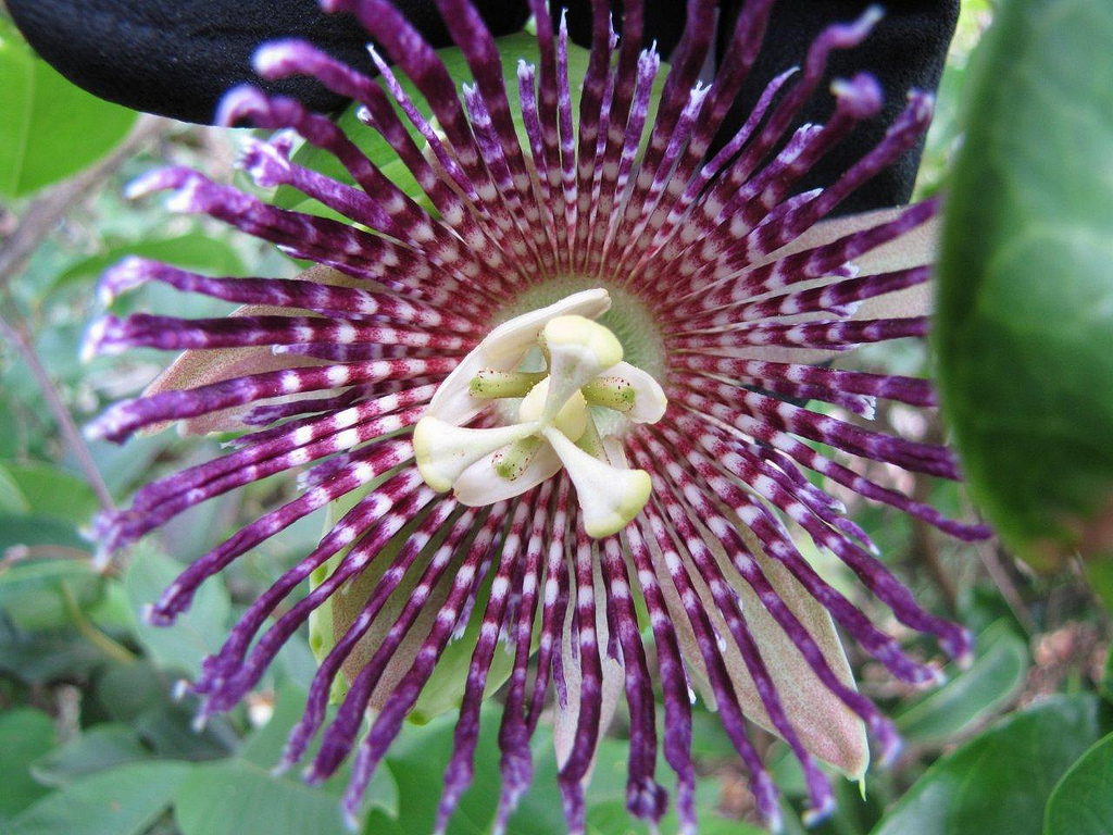 Passiflora laurifolia, Water Lemon flower. Also known as Jamaican lilikoi.